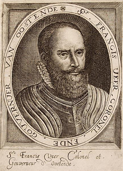 Portrait of Francis de Vere, General and Governor during the Siege of Ostend in 1601 to 1604.